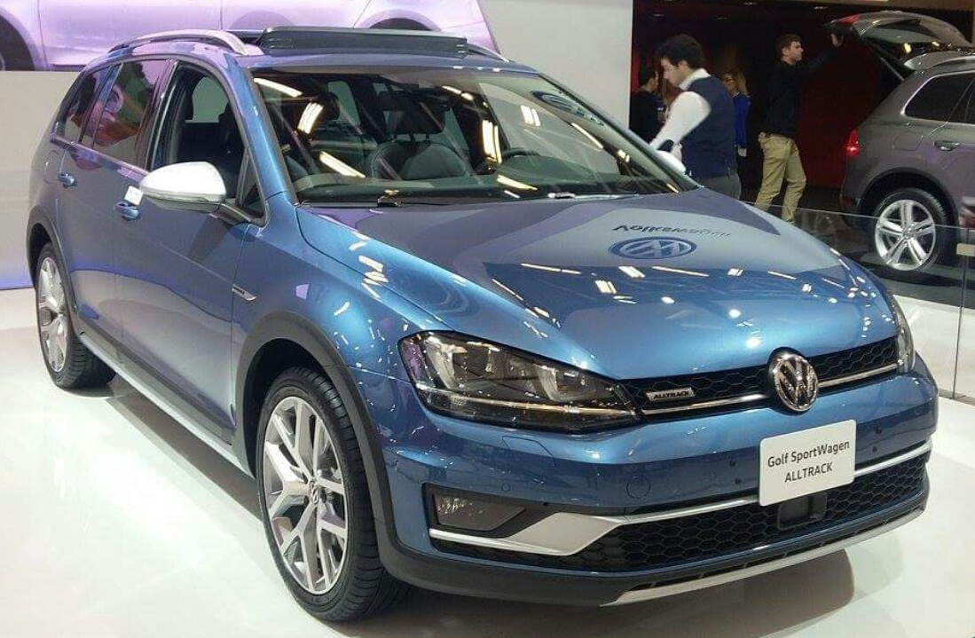 2016 Volkswagen Golf Alltrack photographed in Montreal, Quebec, Canada at the 2016 Montréal International Auto Show.